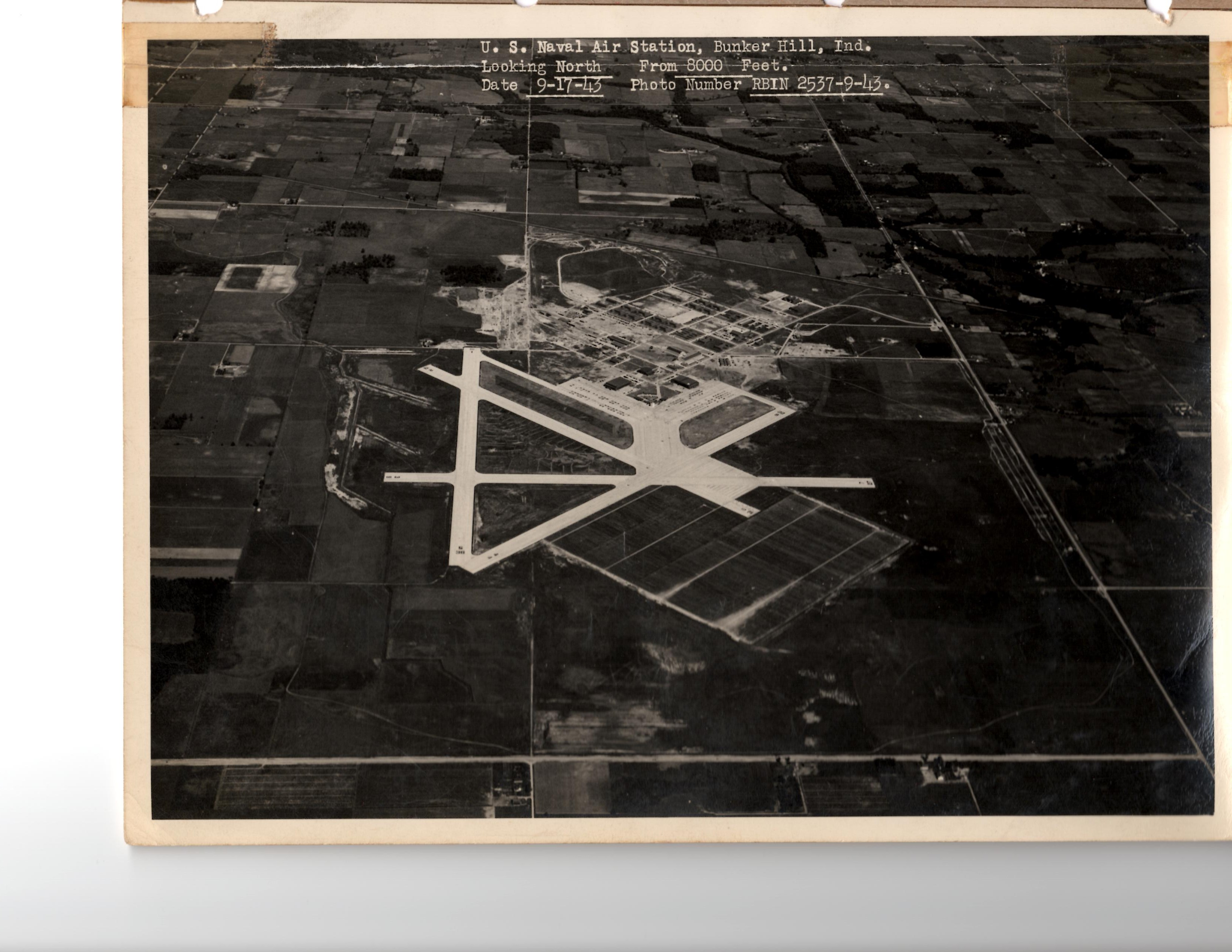 USNAS Bunker Hill Looking North 8000ft 9-17-1943